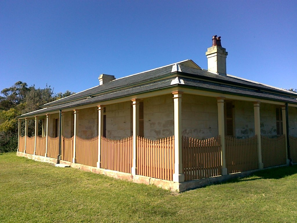 The lightkeepers cottage from 1858 on South Head.